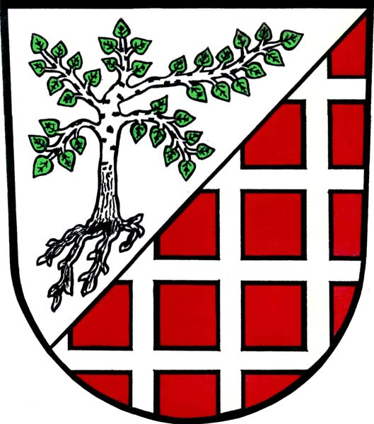 Coat of arms of Nepomyšl, Opava District